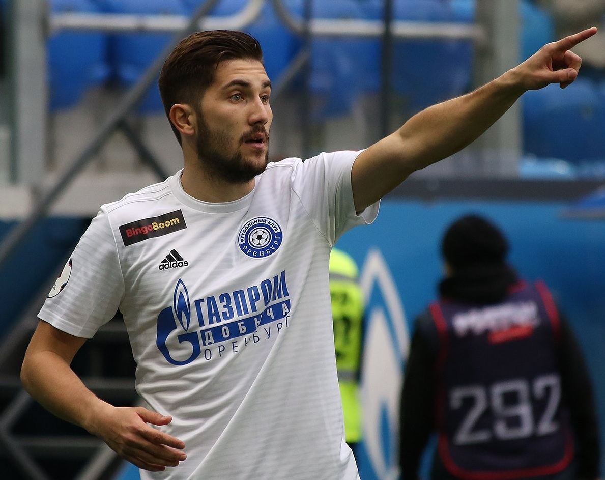 Aleksei Sutormin with FC Orenburg in a game against FC Zenit Saint Petersburg.